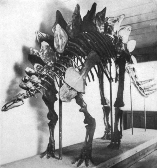 Skeleton of Stegosaurus ungulatus (YPM 1853 & 1858) as originally mounted in the Yale Peabody Museum of Natural History in New Have, Connecticut photographed in oblique front view, 1910. Total length measured at 19 ft. 5 in.